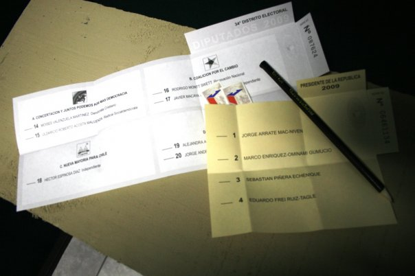 Ballots of the Chilean parliamentary (white) for electoral district 34 and presidential (yellow) elections in 2009.